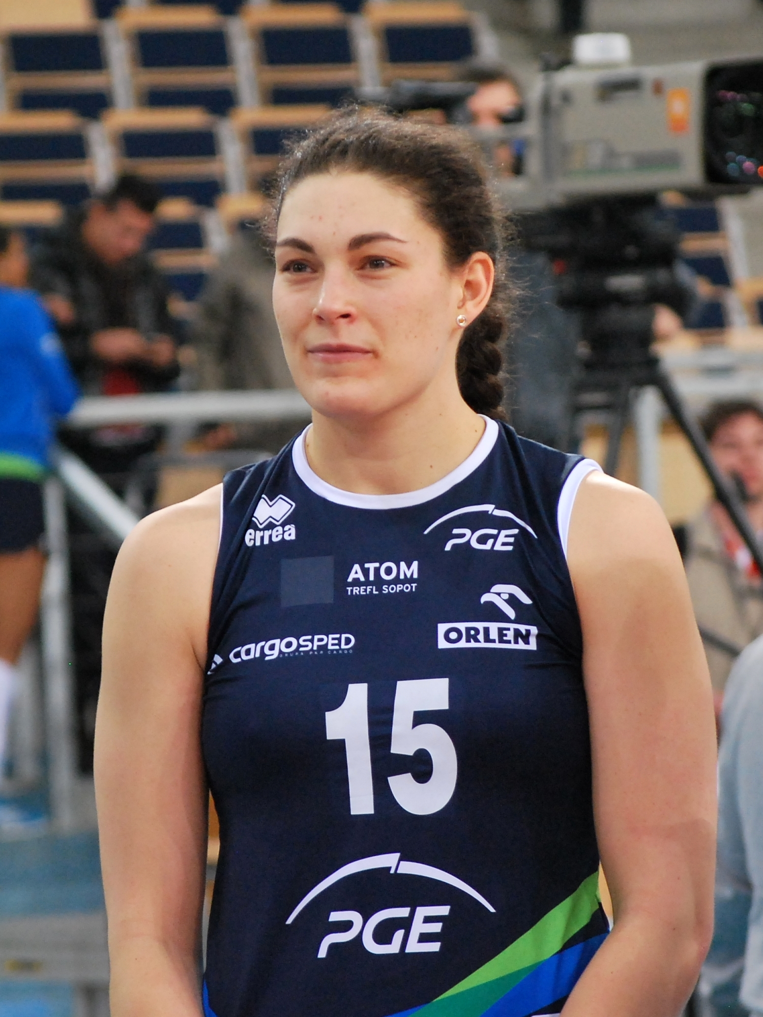 Rachel Rourke,volleyball player from Australia